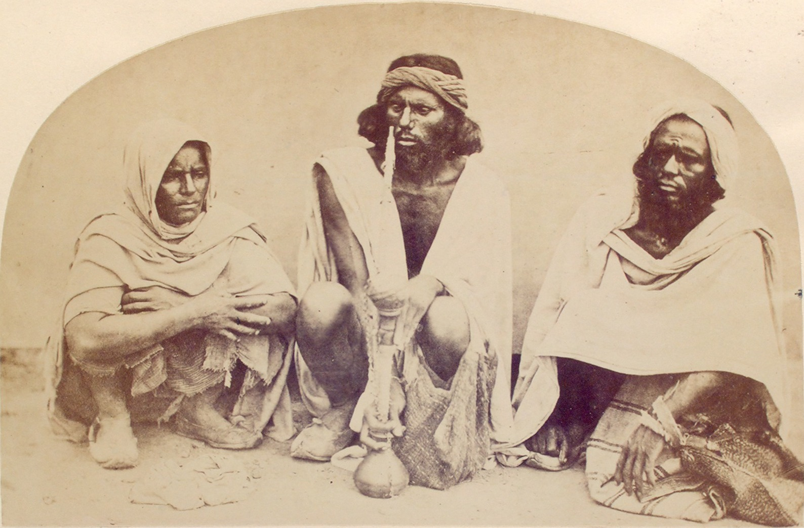 Caption box printed on mount measures 36 x 79 mm.